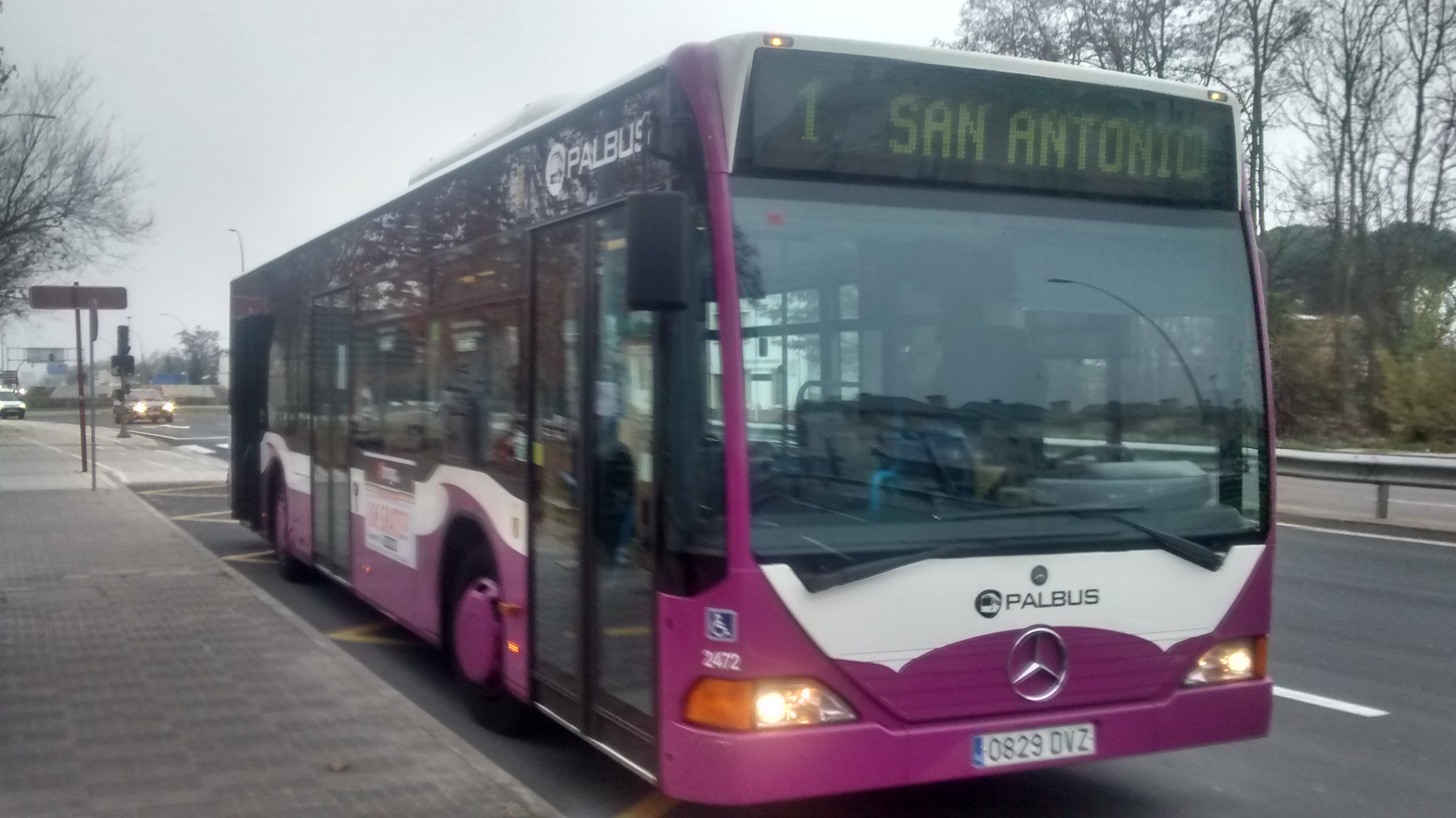 Un autobús de la línea 1 en dirección a San Antonio